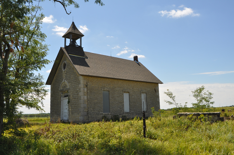 Bichet one room school in Marion County, Kansas, built 1896.